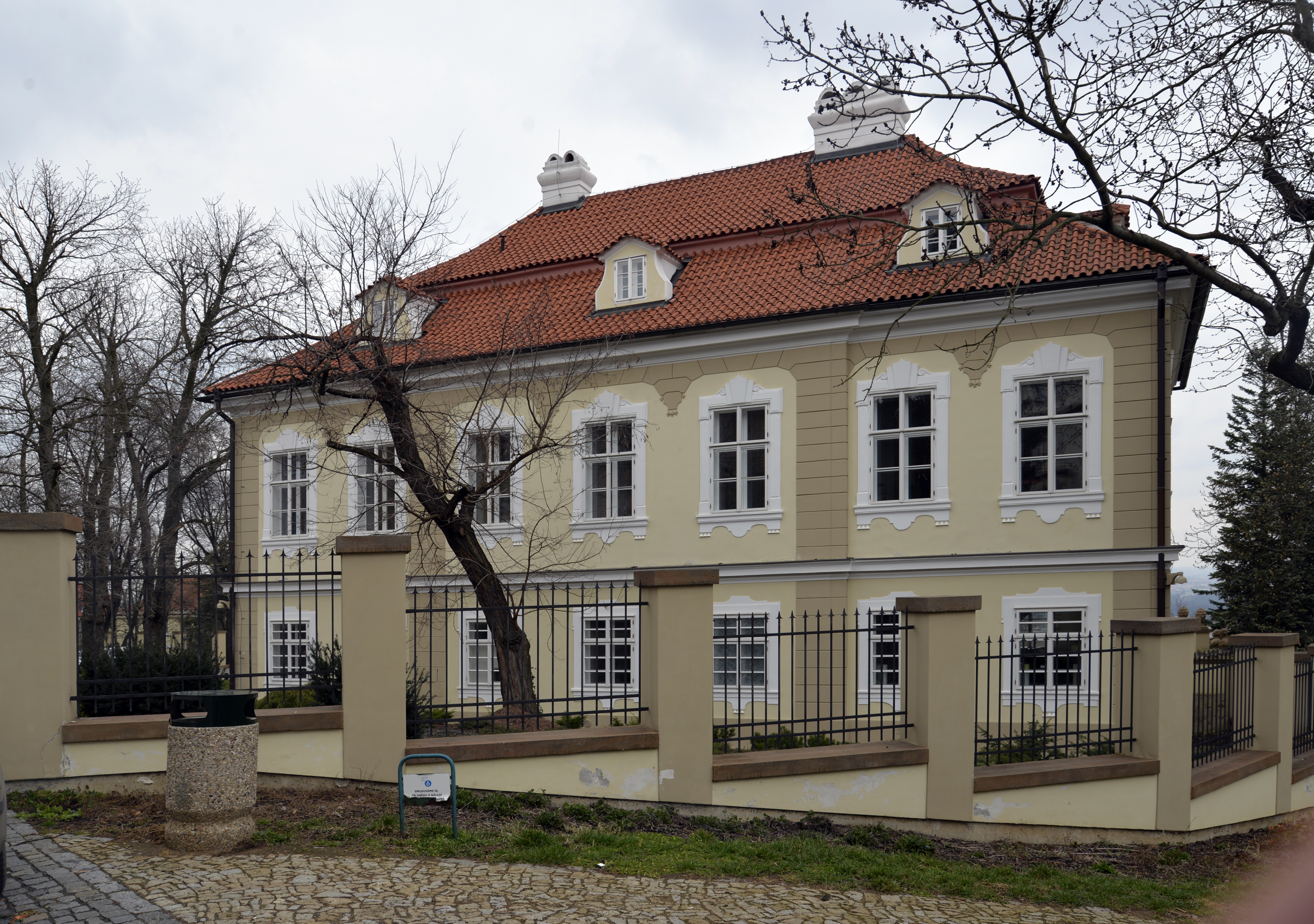 Cultural monument Hanspaulka Mansion, Šárecká street 15/29, Dejvice, Prague 6, Czech Republic.